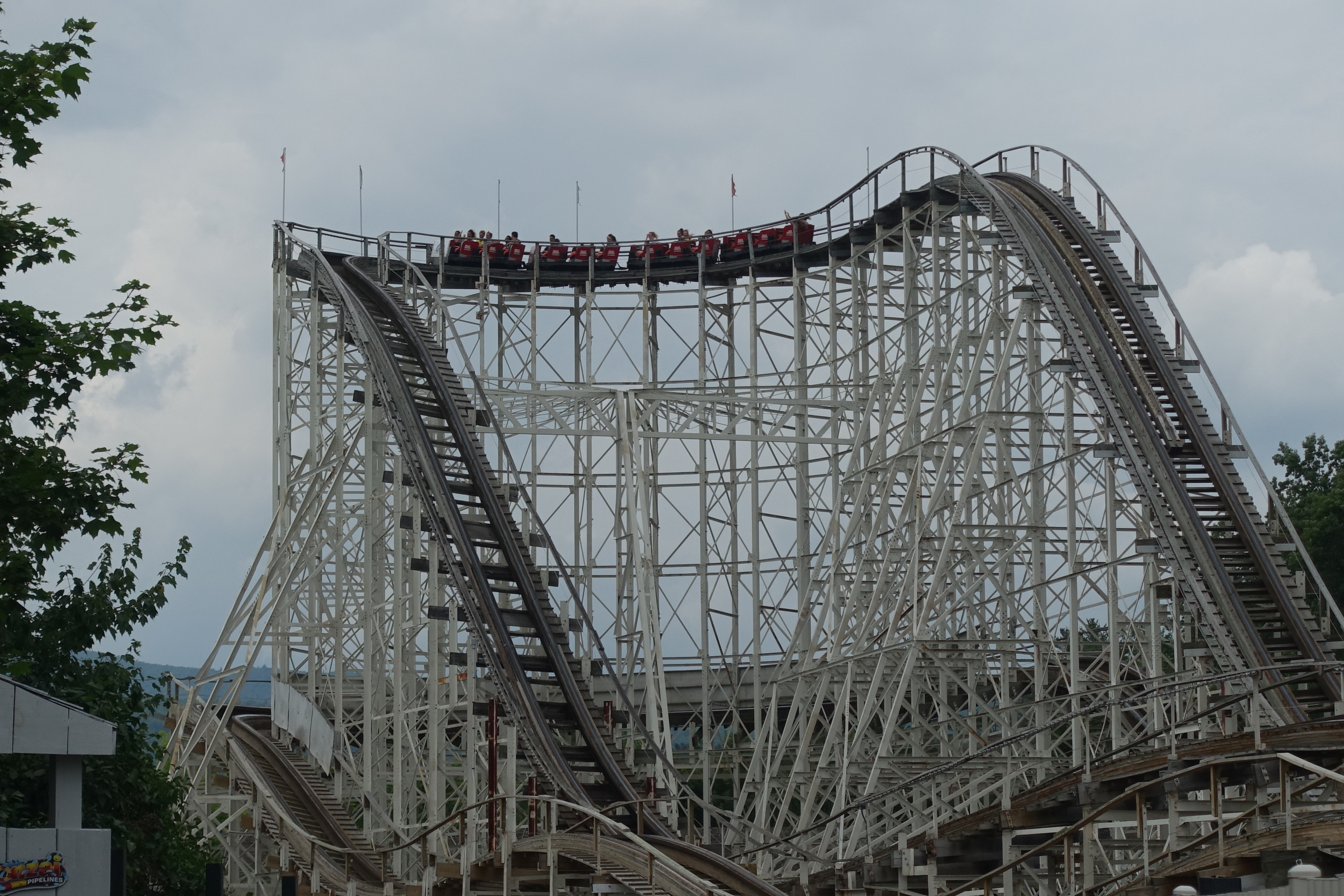 The Comet